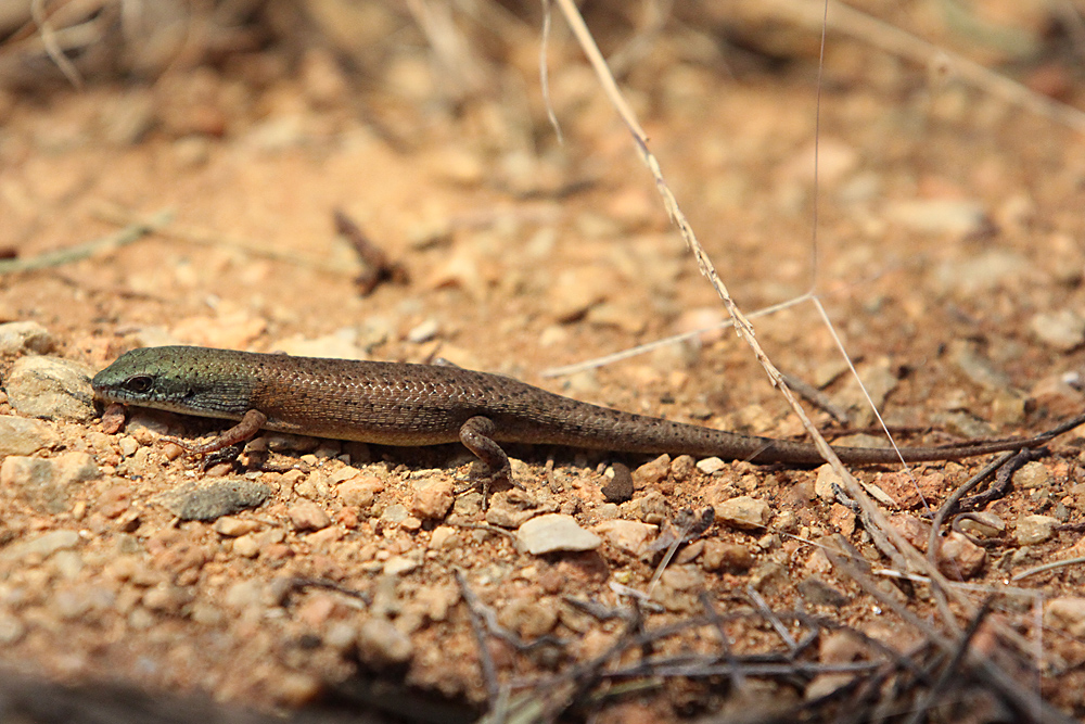 Desert rainbow-skink (Carlia triacantha) (male with breeding colouration) at the Alice Springs Desert Park, Northern Territory, Australia.